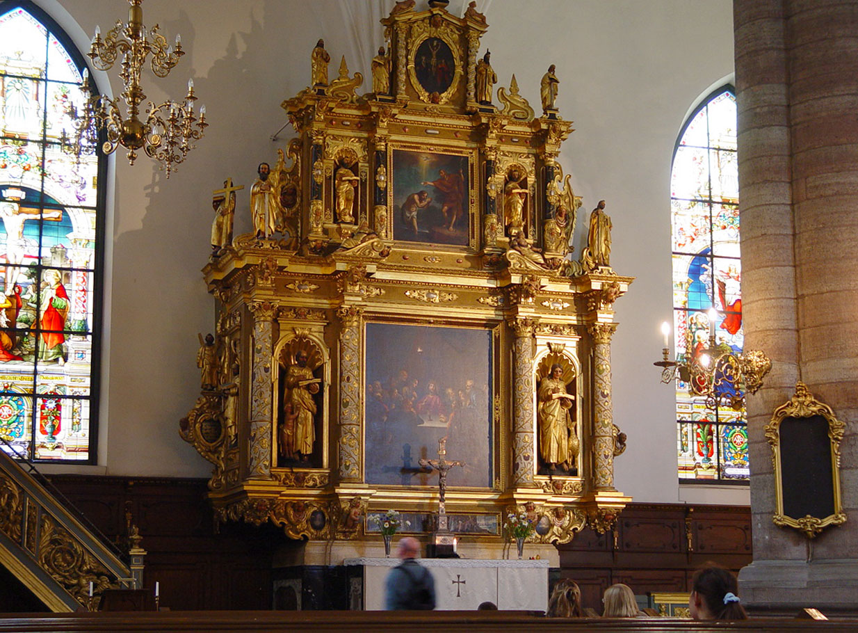 The altarpiece in the German Church, Svartmangatan 16, Old Town, Stockholm. The altar in Baroque is almost 10 meters high and was created by Markus Hebel (died 1664) from Holstein in Germany in the mid-17th century.